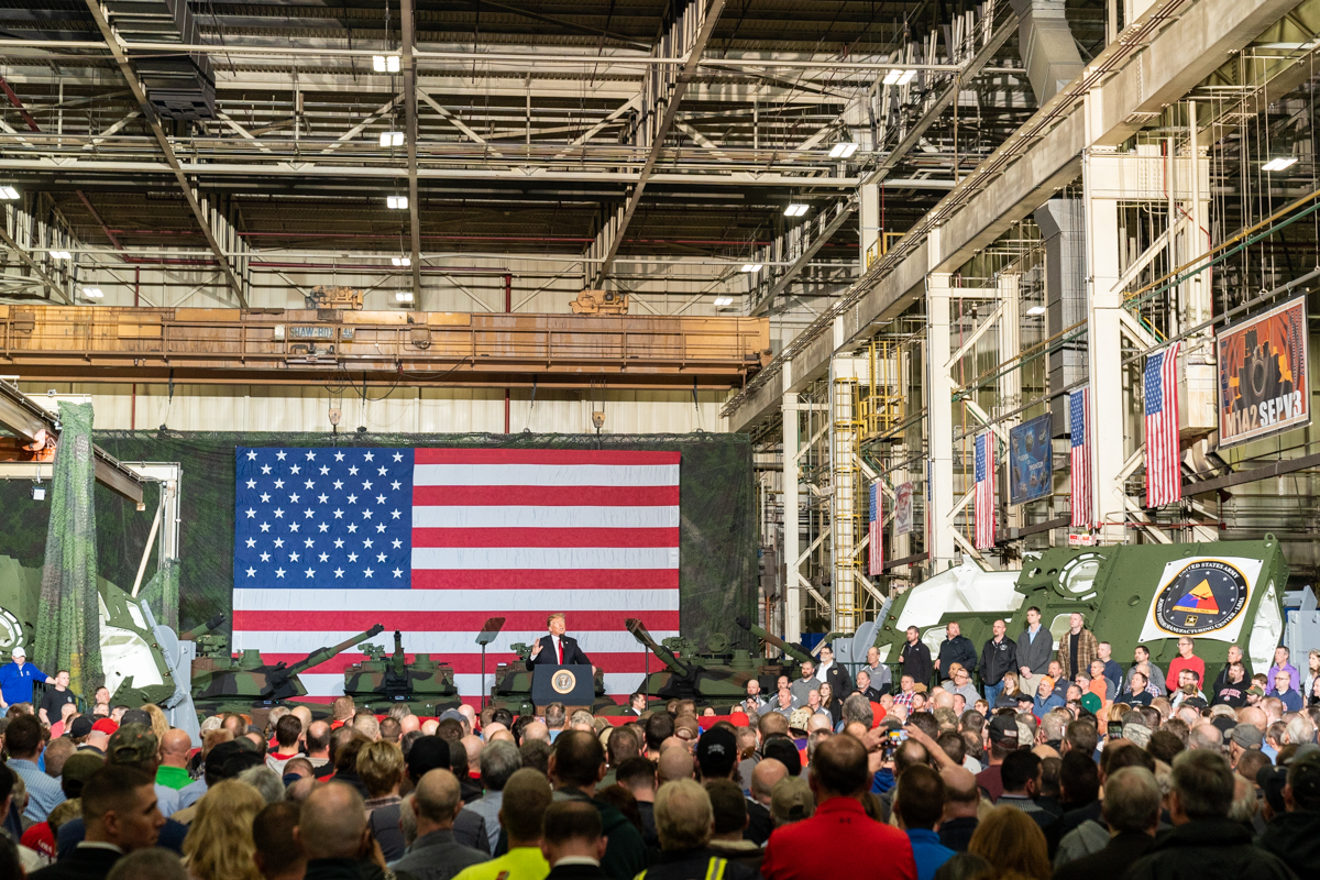 President Donald J. Trump delivers remarks at the Army Tank Plant Wednesday, March 20, 2019, at the Joint Systems Manufacturing Center in Lima, Ohio. (Official White House Photo by Shealah Craighead)